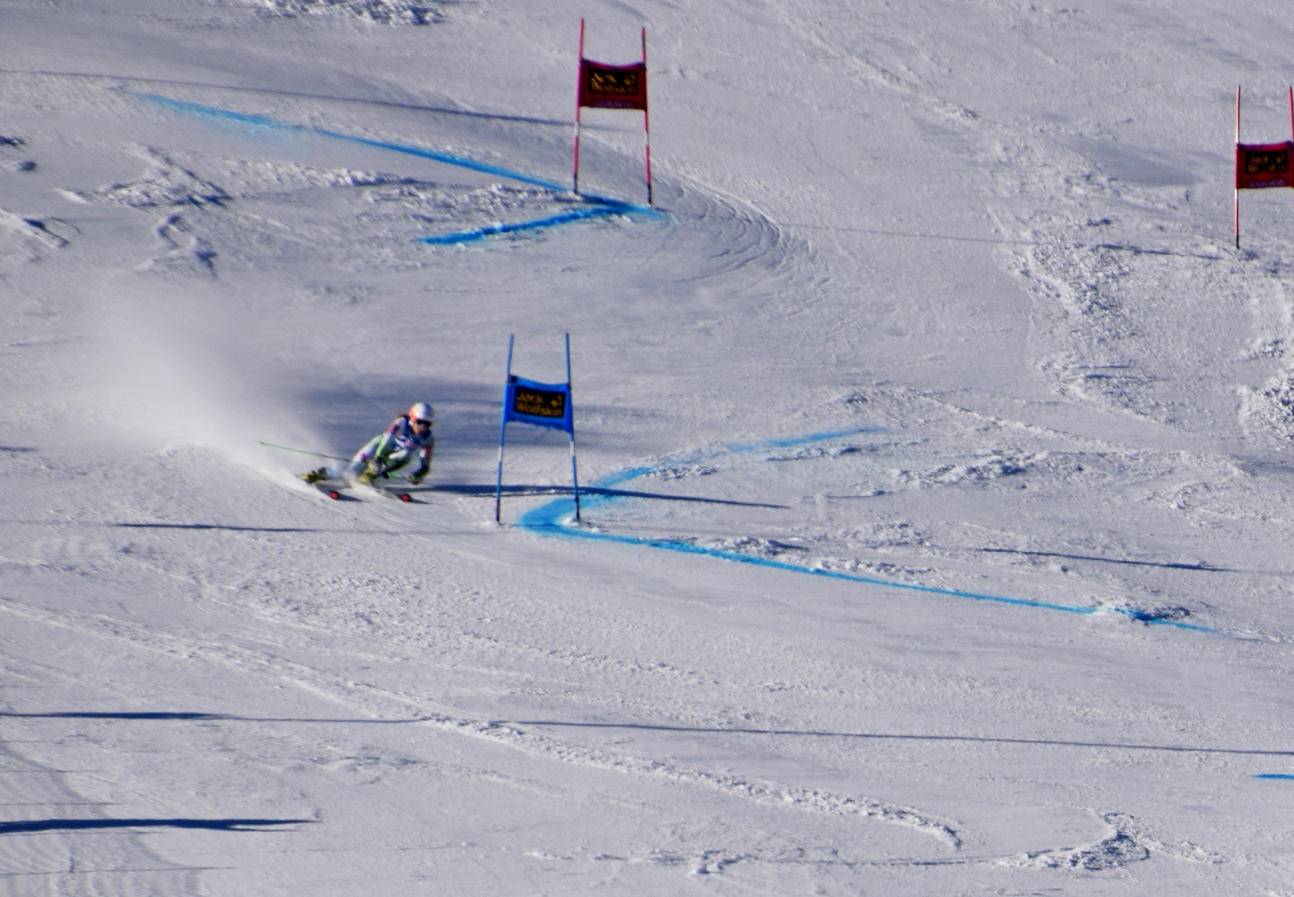 Ana Drev, 1 run of Giant Slalom, Alpine Skiing World Cup of Women in Courchevel, 20 december 2015